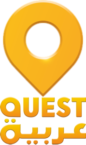 Logo Quest Arabiya (2015)